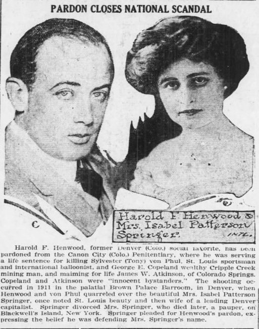 Murders at Brown Plaza Hotel, Denver, 1911 involving Isabel Patterson Springer, the wife of John W. Springer and conducted by Harold F. Henwood.